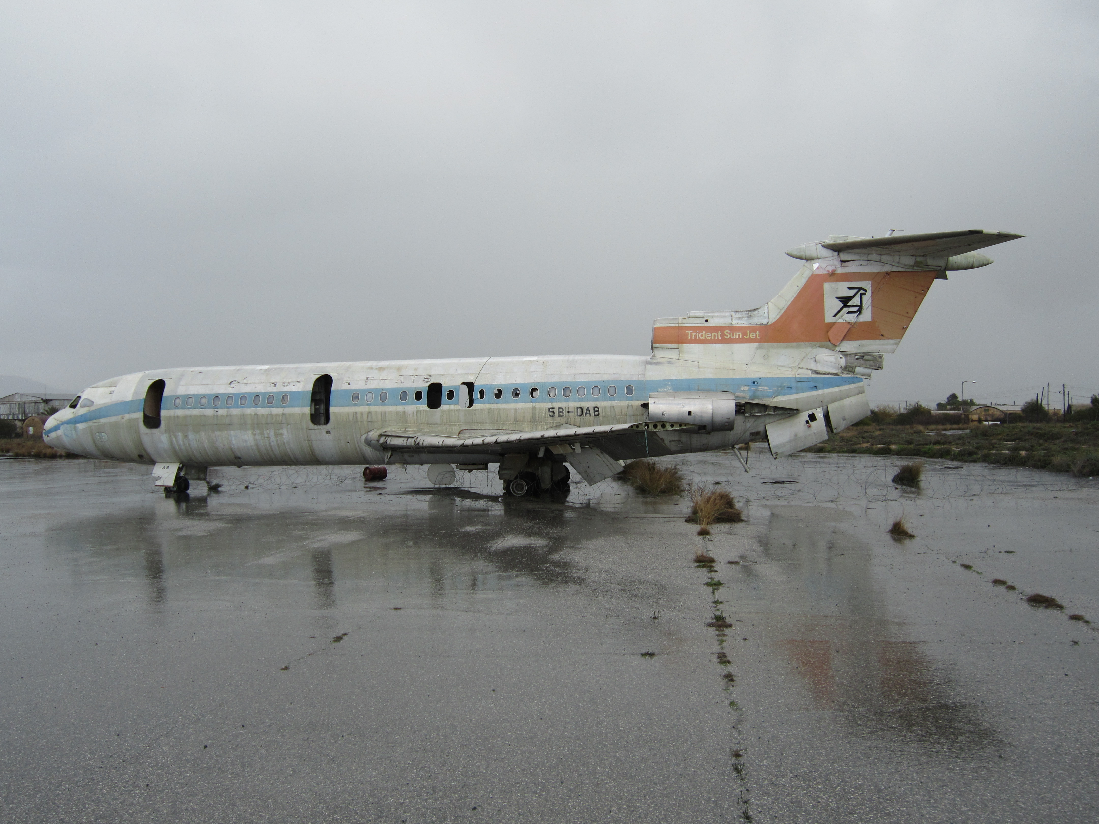 The abandoned Hawker Siddeley Trident 2E 5B-DAB at the closed Nicosia International Airport in the United Nations Buffer Zone in Cyprus after damaged during Turkish invasion of Cyprus.